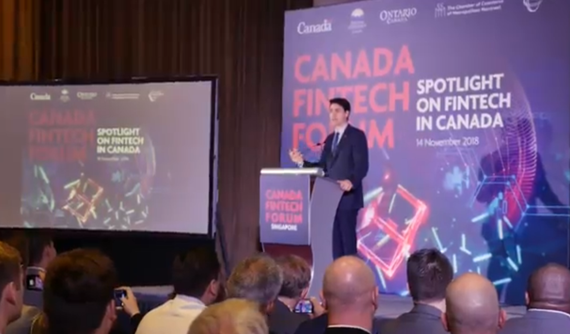 Justin Trudeau, Prime Minister of Canada addressing at Singapore FinTech Festival in 2018